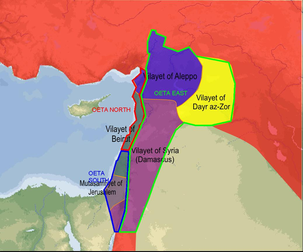 Occupied Enemy Territory Administration Sectors in Syrian Vilahyets 1918